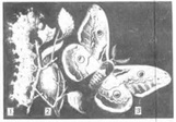 Գիշերային մեծ սիրամարգակ․ 1․ թրթուրը, 2․ բոժոժը, 3․ թիթեռը